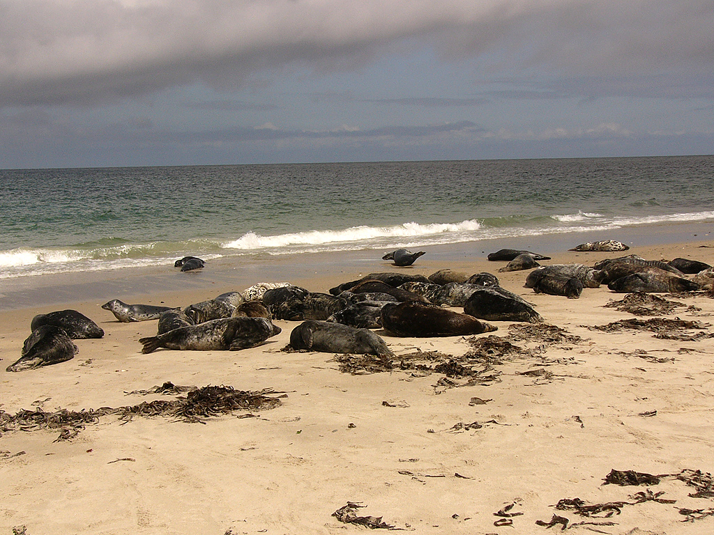 Grey Seal